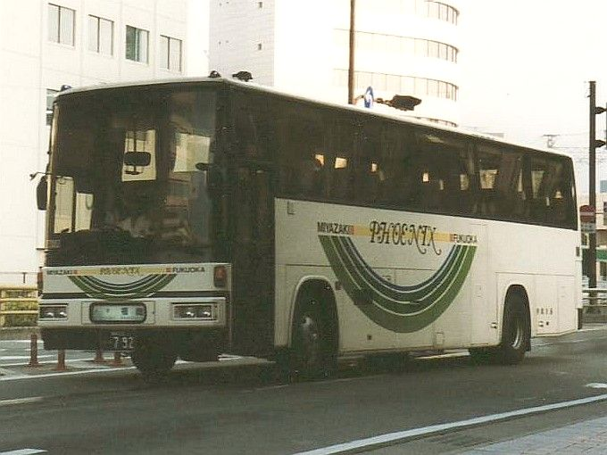 Company:Miyazaki Kotsu Use:transit bus (highway bus) Car license:MZ 22 KA 792 Chassis manufacturer:Mitsubishi Motors Coachbuilder:Nishinippon Shatai Kogyo Location:In Chuo Ward, Fukuoka City, Fukuoka, Japan. Scanned from negative color print